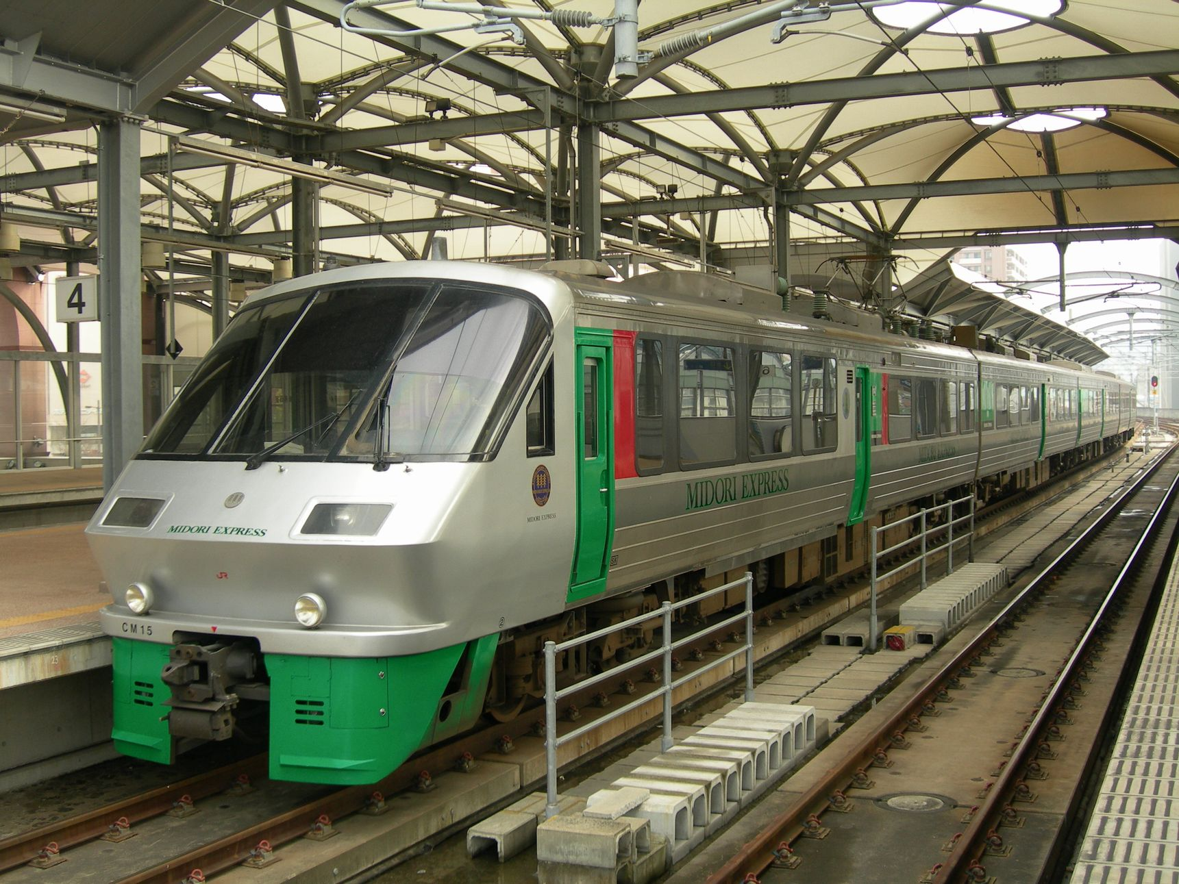 JR Kyushu 783 series EMU on a Midori limited express service at Sasebo Station